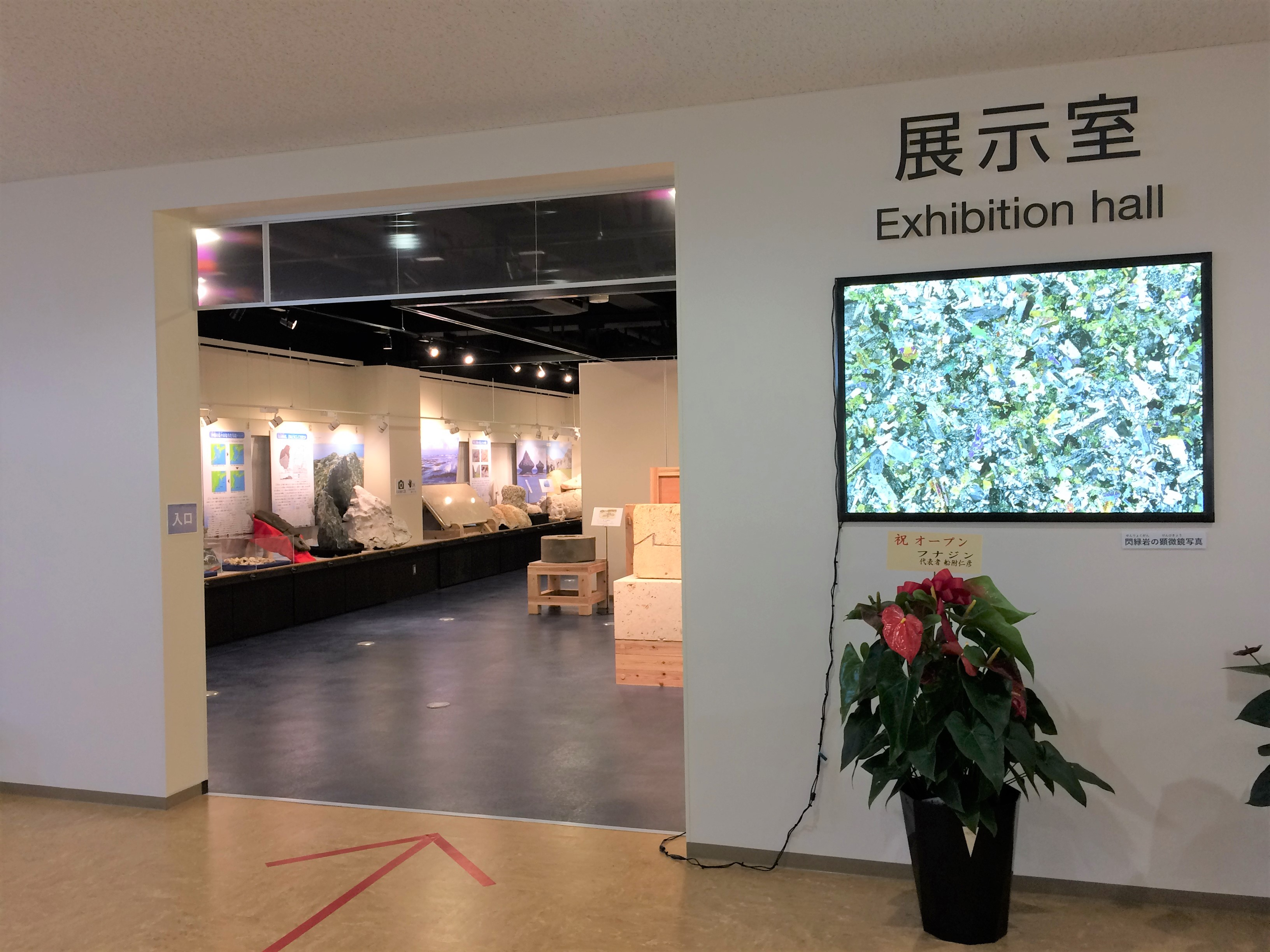 Stone Culture Museum